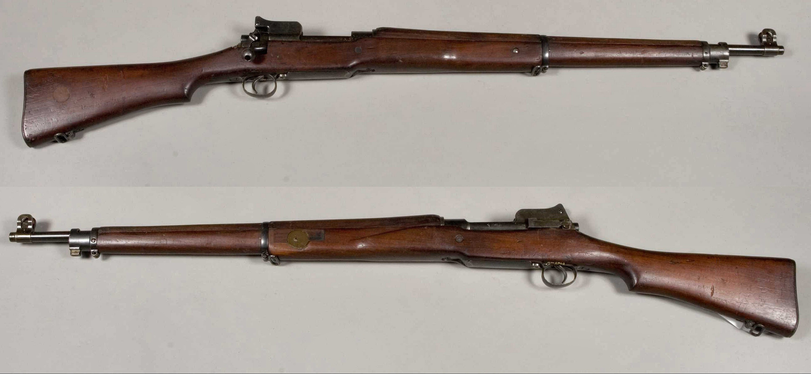 Rifle Pattern 14 Enfield. Caliber .303" British. From the collections of Armémuseum (Swedish Army Museum), Stockholm, Sweden.